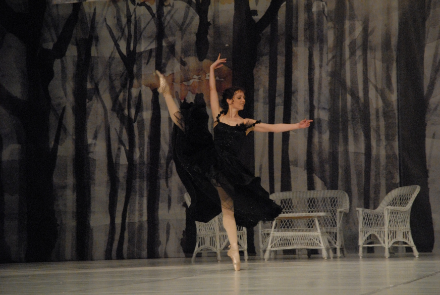 Prima ballerina of the Serbian National Theatre Srpski (latinica): Prvakinja Baleta Srpskog narodnog pozorišta Српски (ћирилица): Првакиња Балета Српског народног позоришта